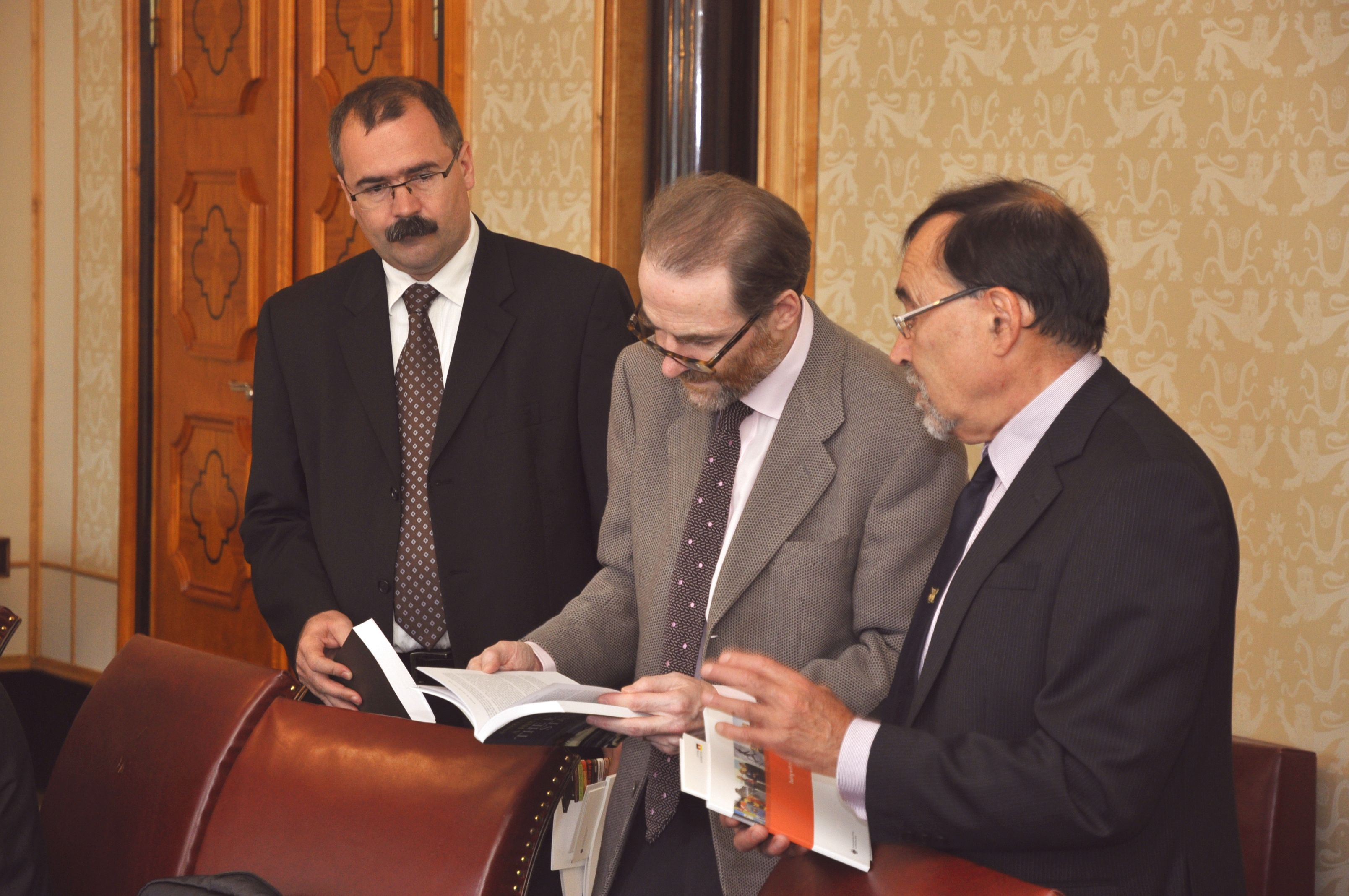 International Learned Committee of Experts of Estonian Institute of Historical Memory held a working meeting.